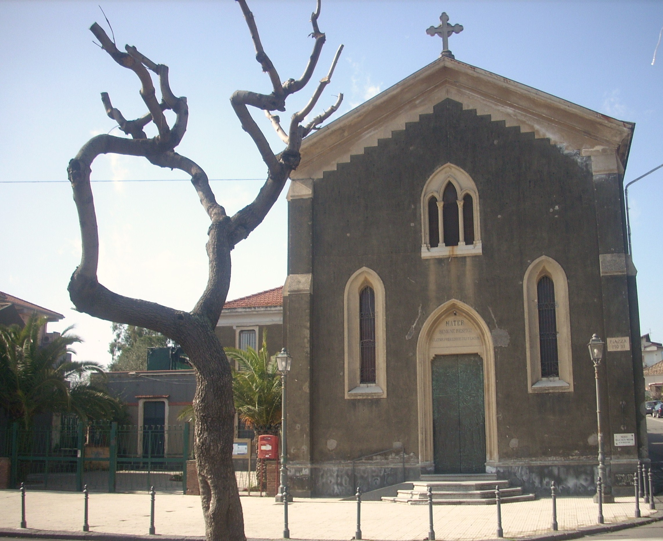 Parish church of Santa Maria La Stella, Aci Sant'Antonio, Sicily.